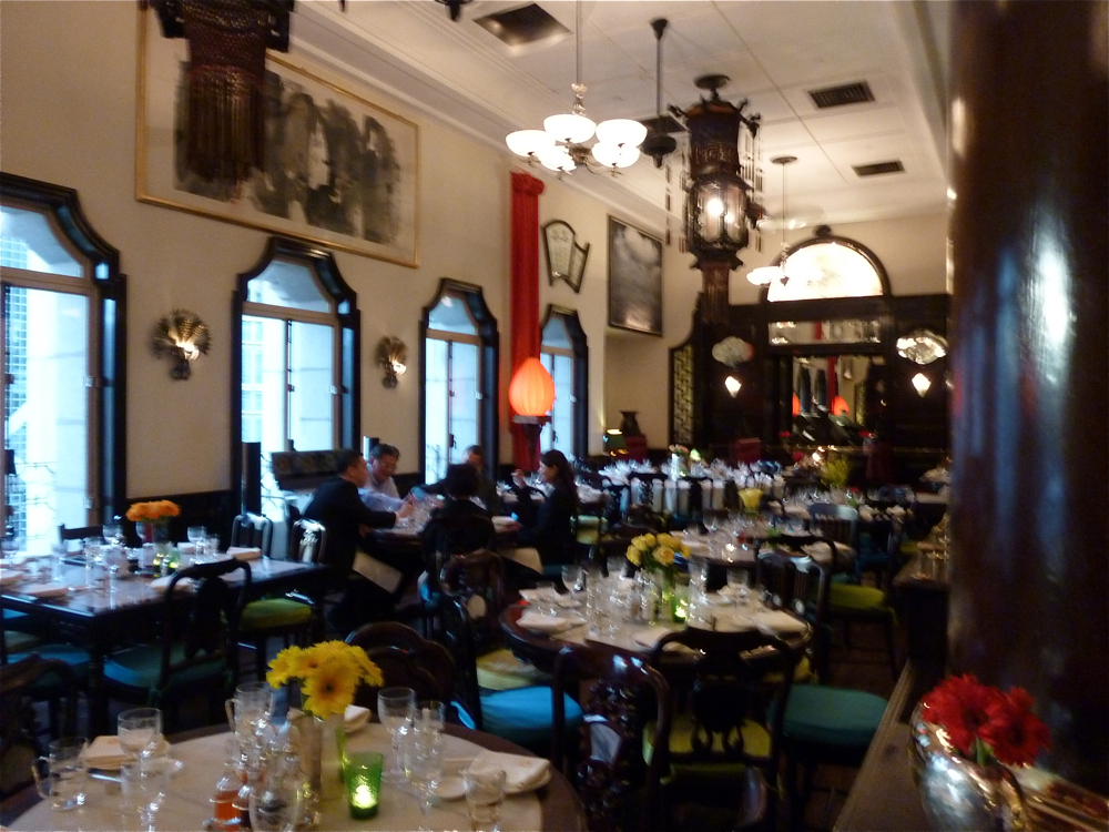 China Club - main dining room